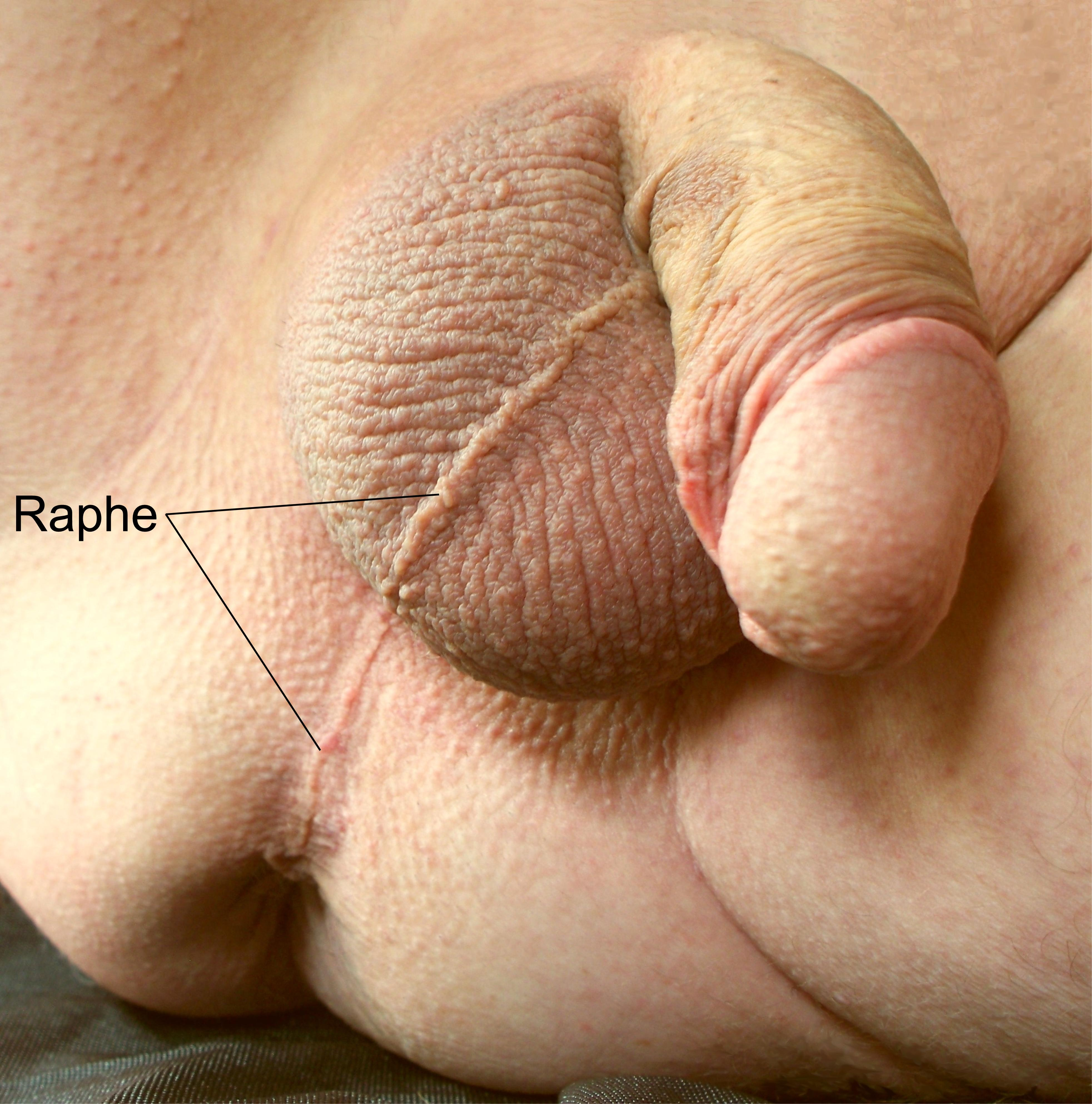 Male genitals with flaccid, uncircumcised penis. Labels indicating raphe on the scrotum and perineum